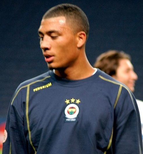 Colin Kazim-Richards (cropped version).